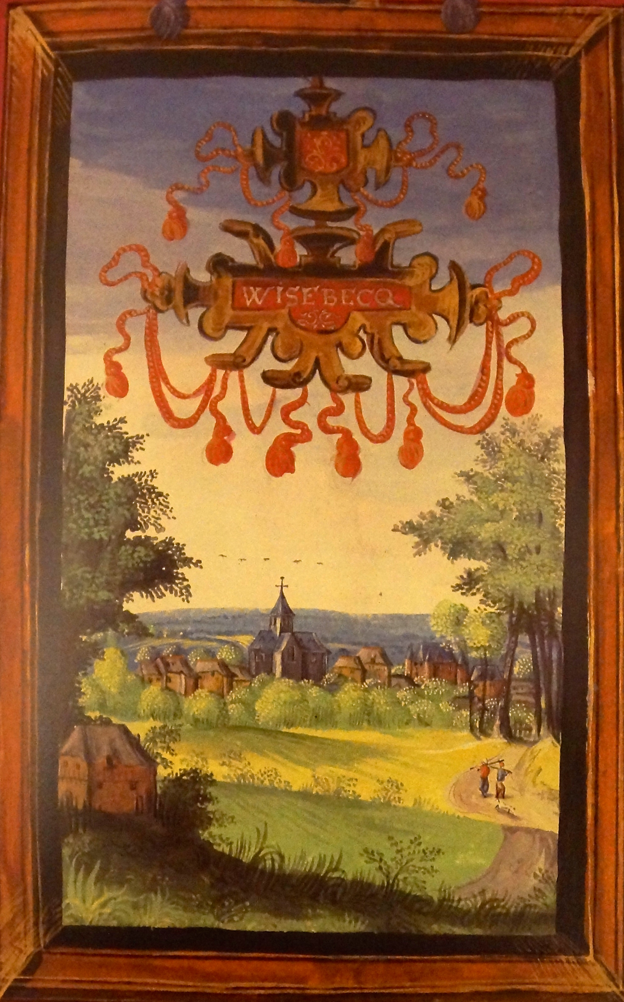 Rebecq (Wisbecq), Wisbecq in the albums from Charles III de Croÿ